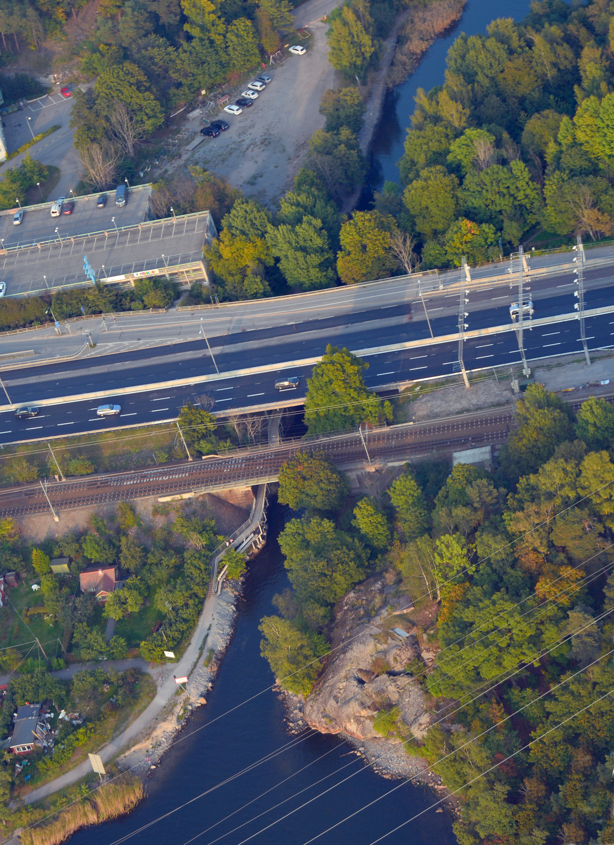 Ålkistan between Brunnsviken and Lilla Värtan in Stockholm, Sweden.